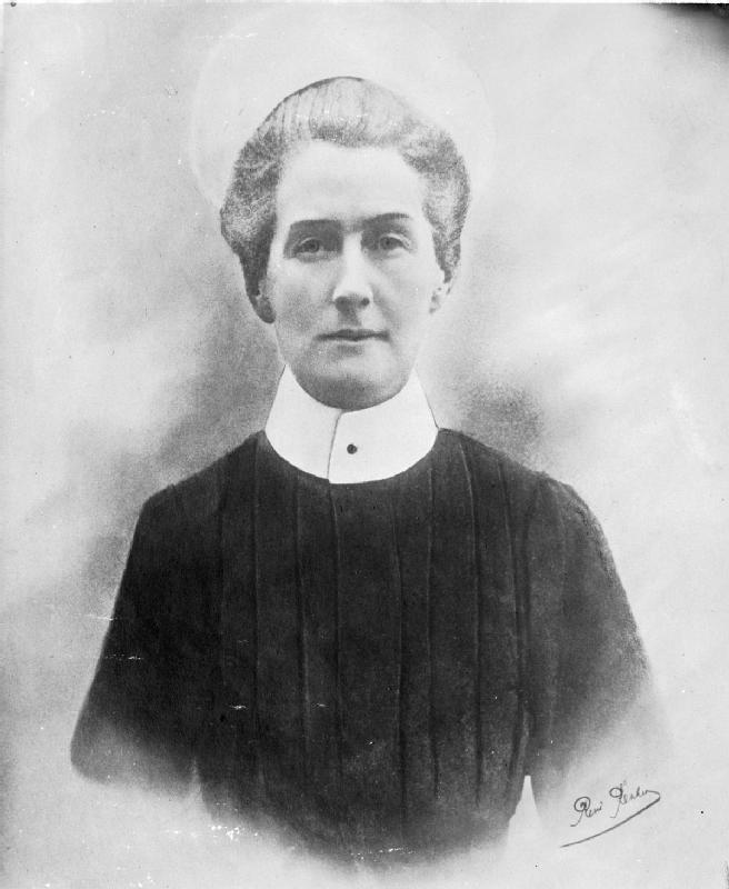 Nurse Edith Cavell 1865-1915 A portrait of Edith Cavell, head of L'Ecole d'Infirmiere Dimplonier (Belgian nursing school) in Brussels, in her uniform, before the First World War.